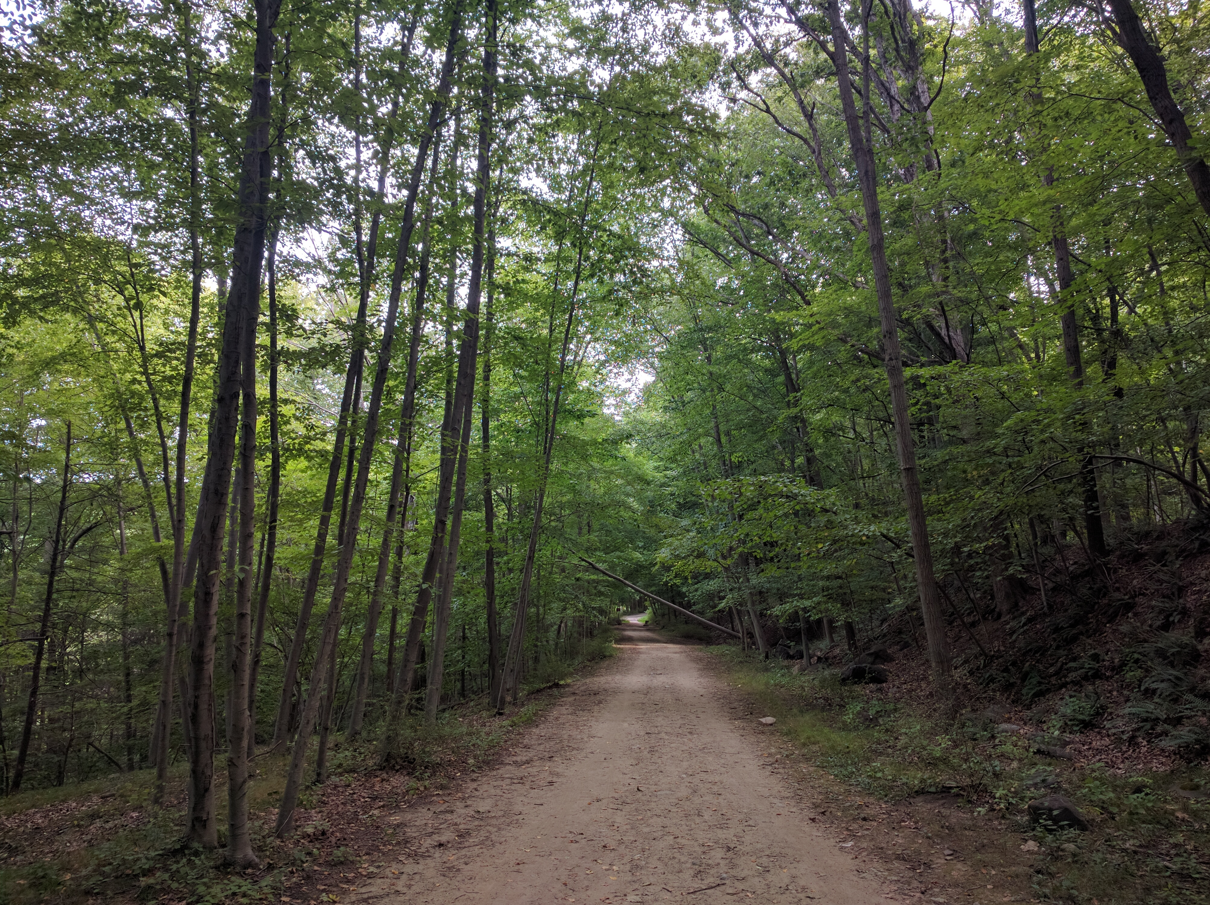 Croton Gorge Park - one of the trails to the top of the dam